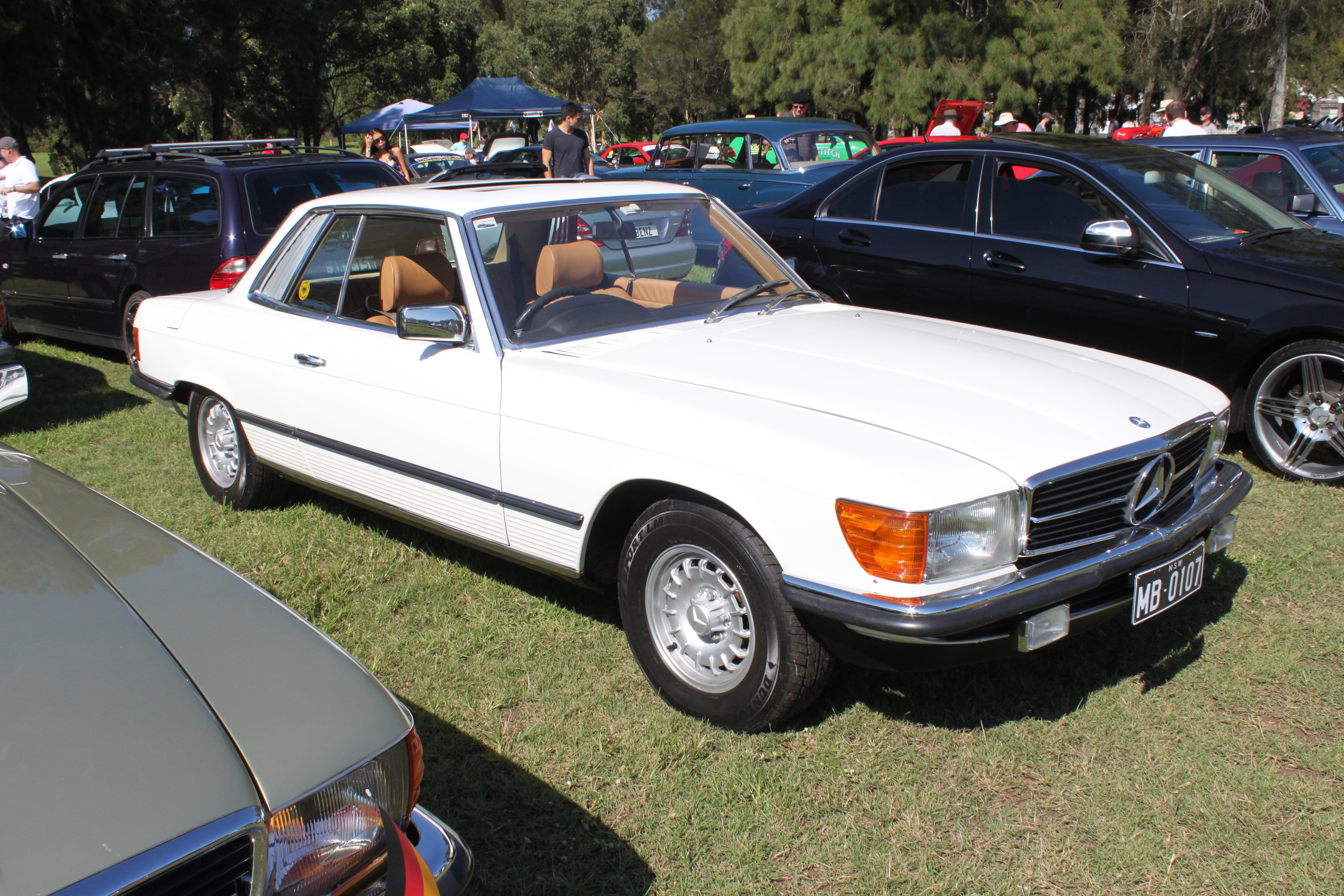 German Auto Fest 2015, Gough Whitlam Park, Earlwood NSW